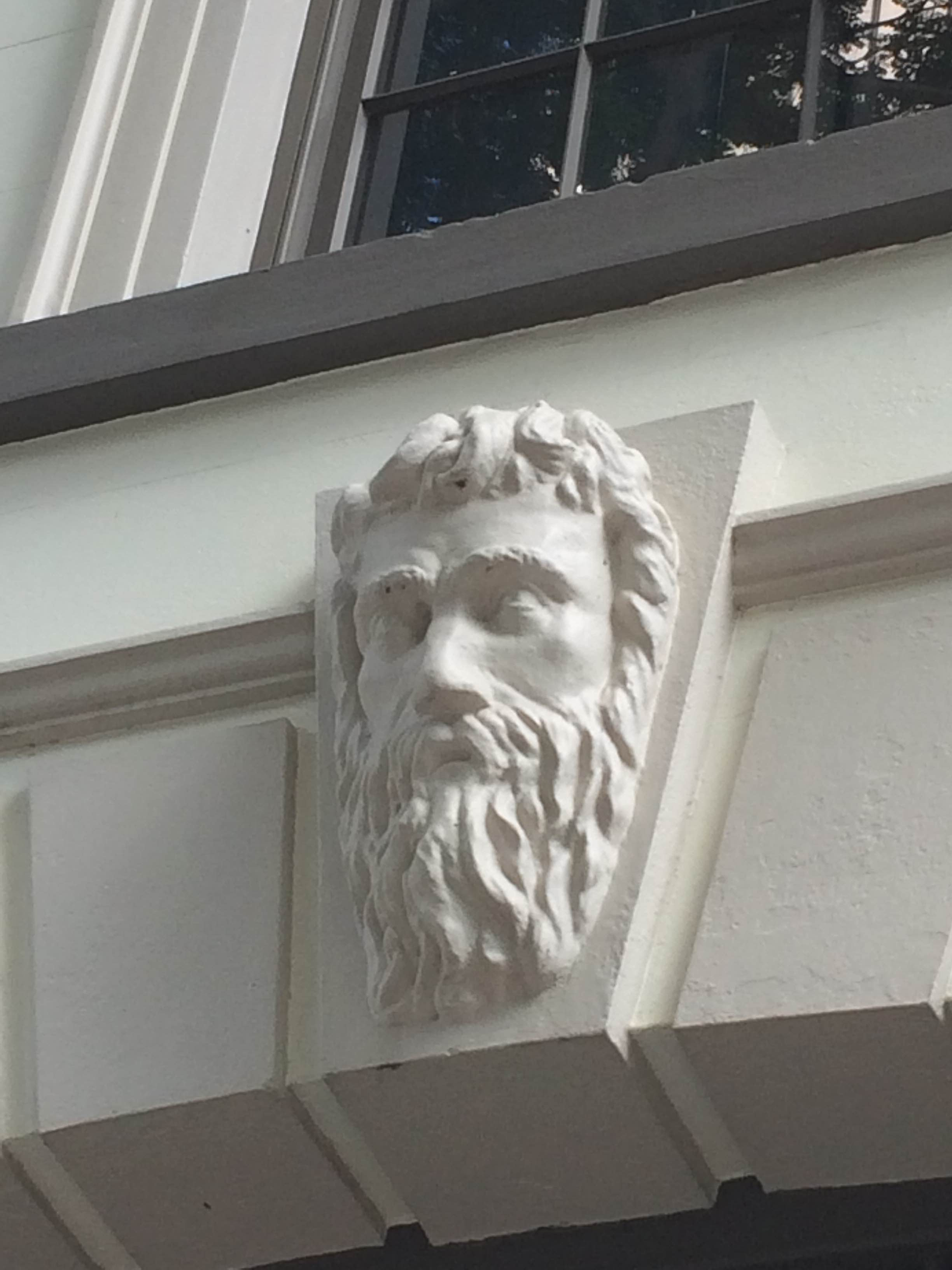 Wenley House, Market Street, Brisbane, 2015